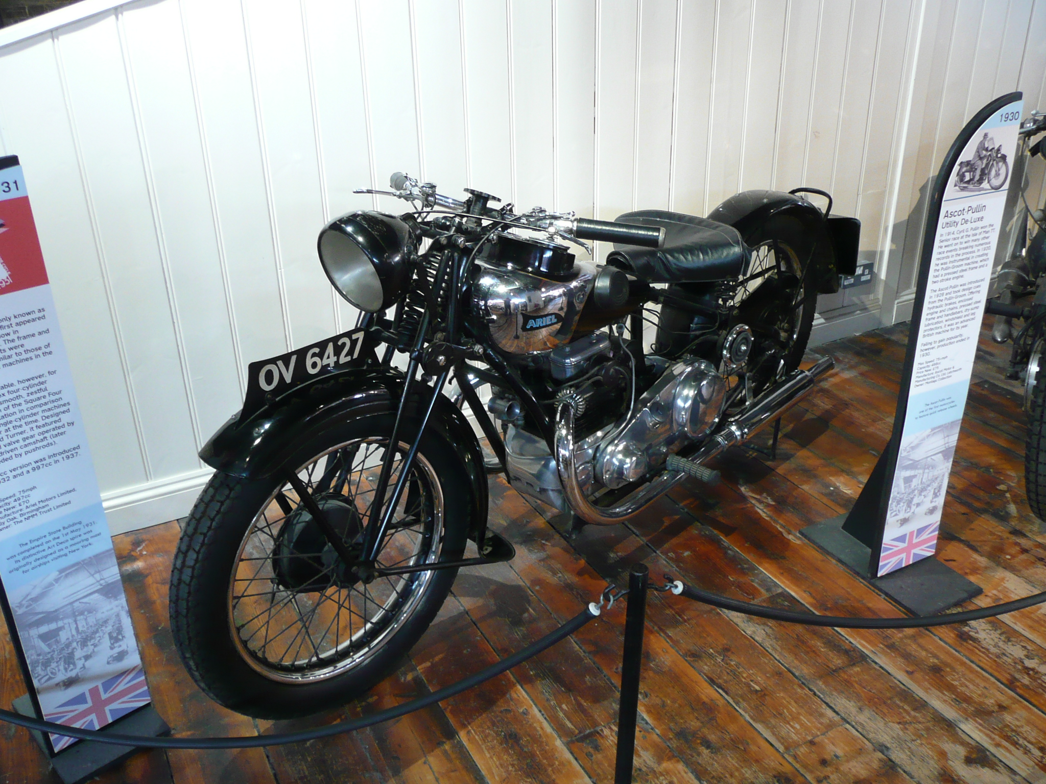 1931 Ariel 4F, National Motor Museum in Beaulieu.